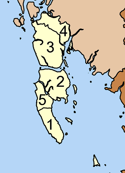 Map of Ko Lanta district, Krabi province, Thailand, with the communes (tambon) numbered. Ko Lanta Yai (เกาะลันตาใหญ่) Ko Lanta Noi (เกาะลันตาน้อย) Ko Klang (เกาะกลาง) Khlong Yang (คลองยาง) Sala Dan (ศาลาด่าน)